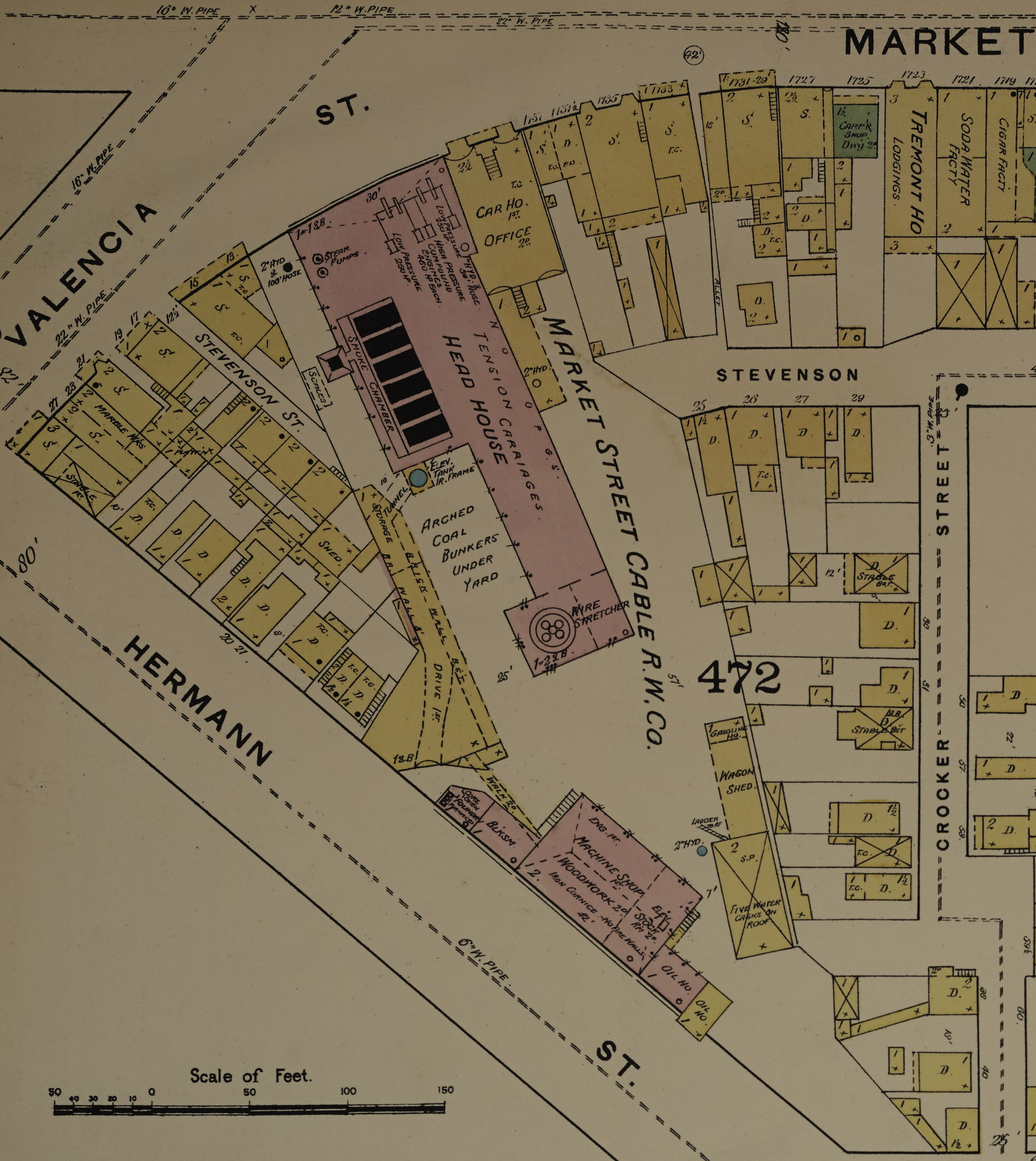 1889 Vol. 3. 69 Sheet(s). Double-paged plates numbered 62-88F. Bound.